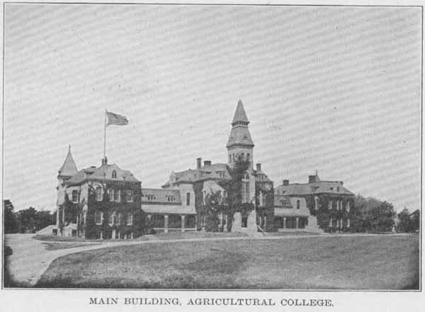 Illustration from 1912 book KANSAS: A Cyclopedia of State History, Embracing Events, Institutions, Industries, Counties, Cities, Towns, Prominent Persons, Etc